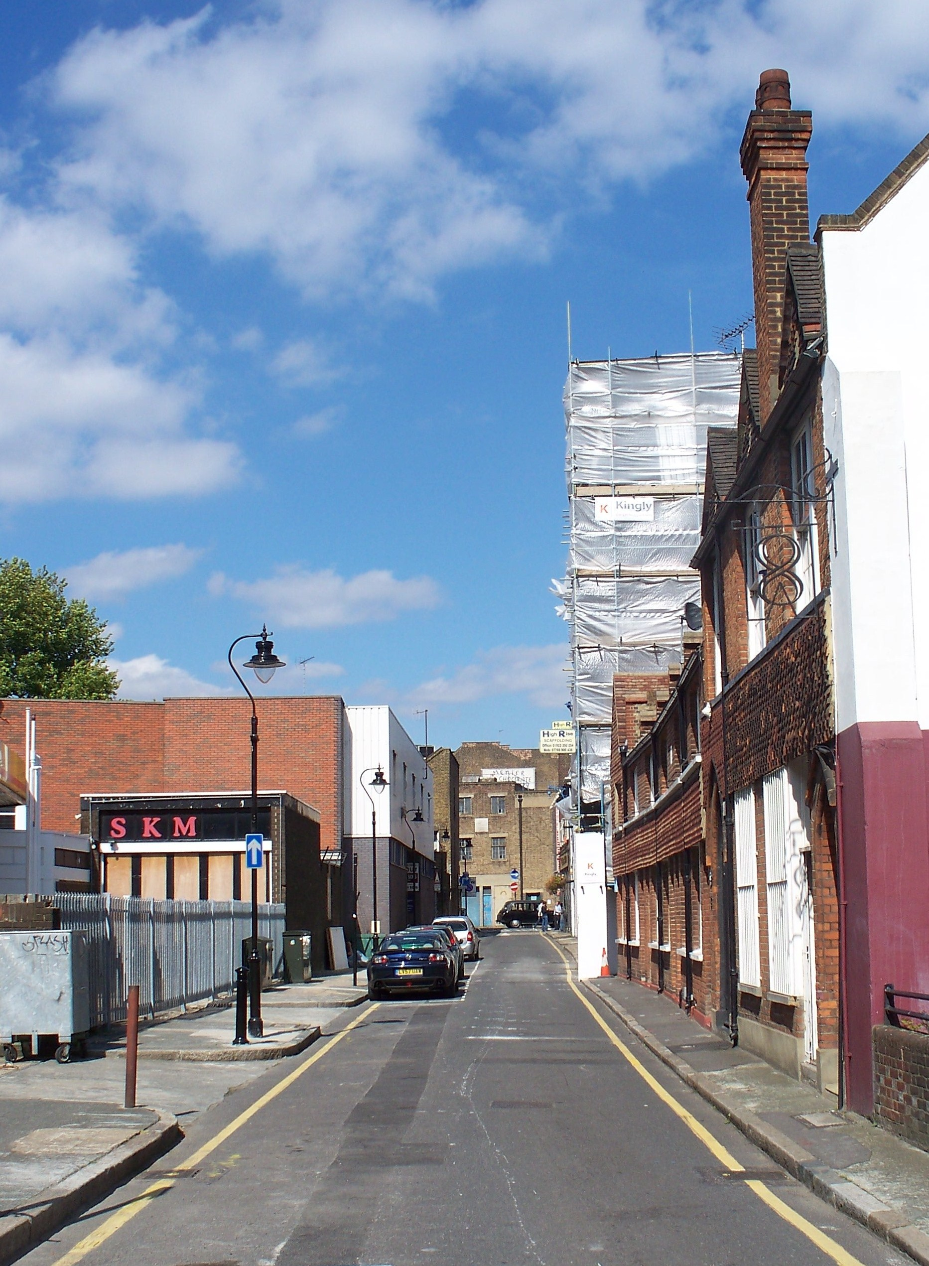 Ayres Street, London SE1. Photograph taken in a public location in the UK of a structure on permanent public display, and exempt from copyright under Section 62 of the Copyright Designs & Patents Act 1988 ("it is not an infringement of copyright to film, photograph, broadcast or make a graphic image of a building, sculpture, models for buildings or work of artistic craftsmanship if that work is permanently situated in a public place or in premises open to the public")